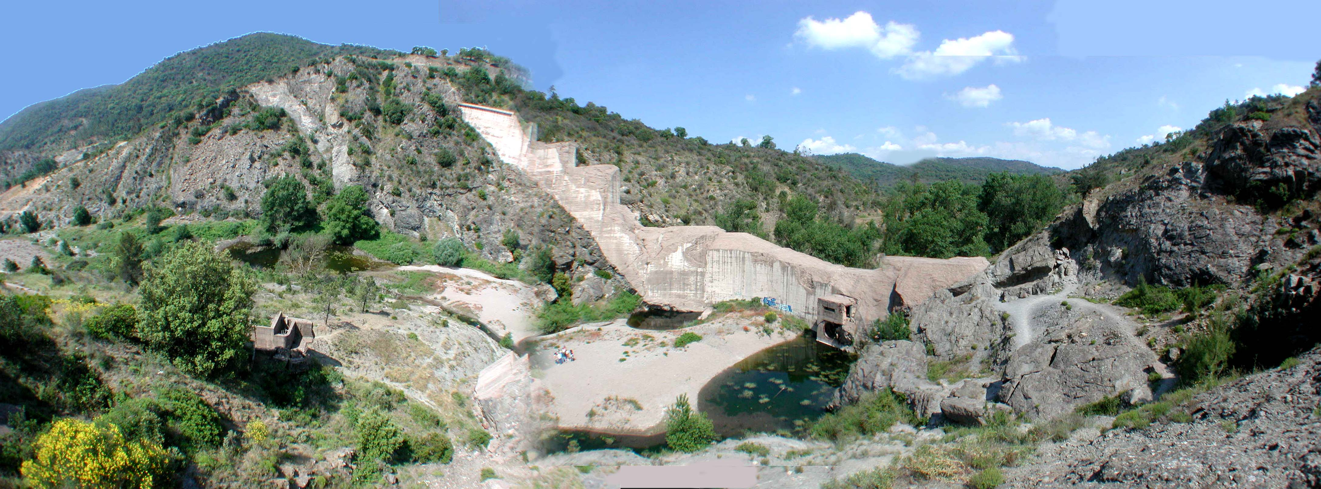 Malpasset's dam, broken down in december,2, 1959